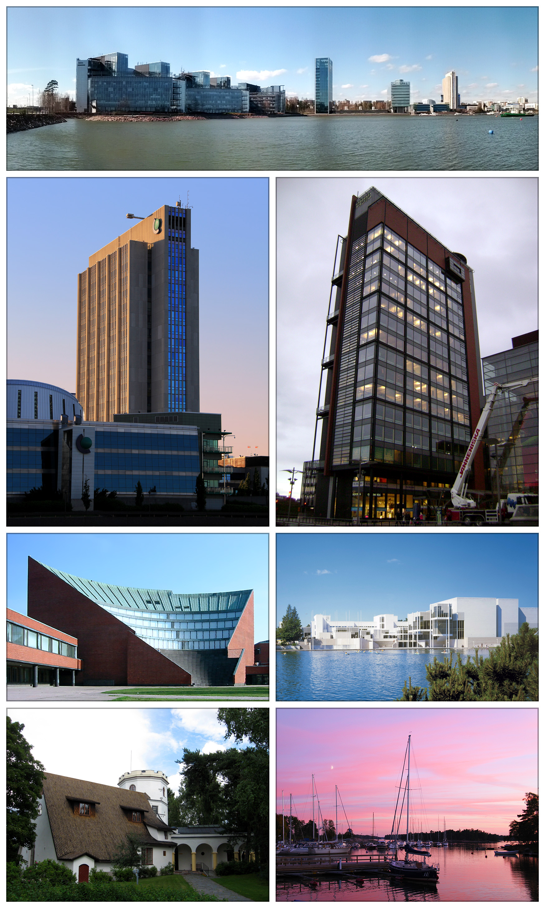 A montage of the city of Espoo, Finland. Includes pictures of Keilaniemi (with Microsoft Talo, Kone Building, & Fortum head office), Panorama Tower, Espoo Cultural Centre, Haukilahti, Tarvaspää or the Gallen-Kallela Museum, Aalto University Otaniemi campus auditorium, and Fortum head office.